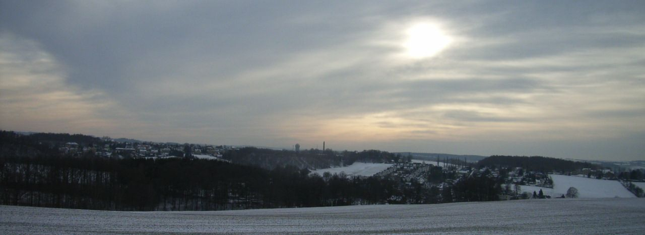 Panorama of the Lugau-Oelsnitz mining district in Saxony, Germany. The slag heaps (from right to left) belong to the following collieries: Fundgrube, Vertrauen, Gottes-Segen, Saxonia and Victoria. The winding tower of Kaiserin-Augusta shaft ("Empress Augusta"), later renamed into Karl-Liebknecht shaft, today a mining museum, can be seen in the background.